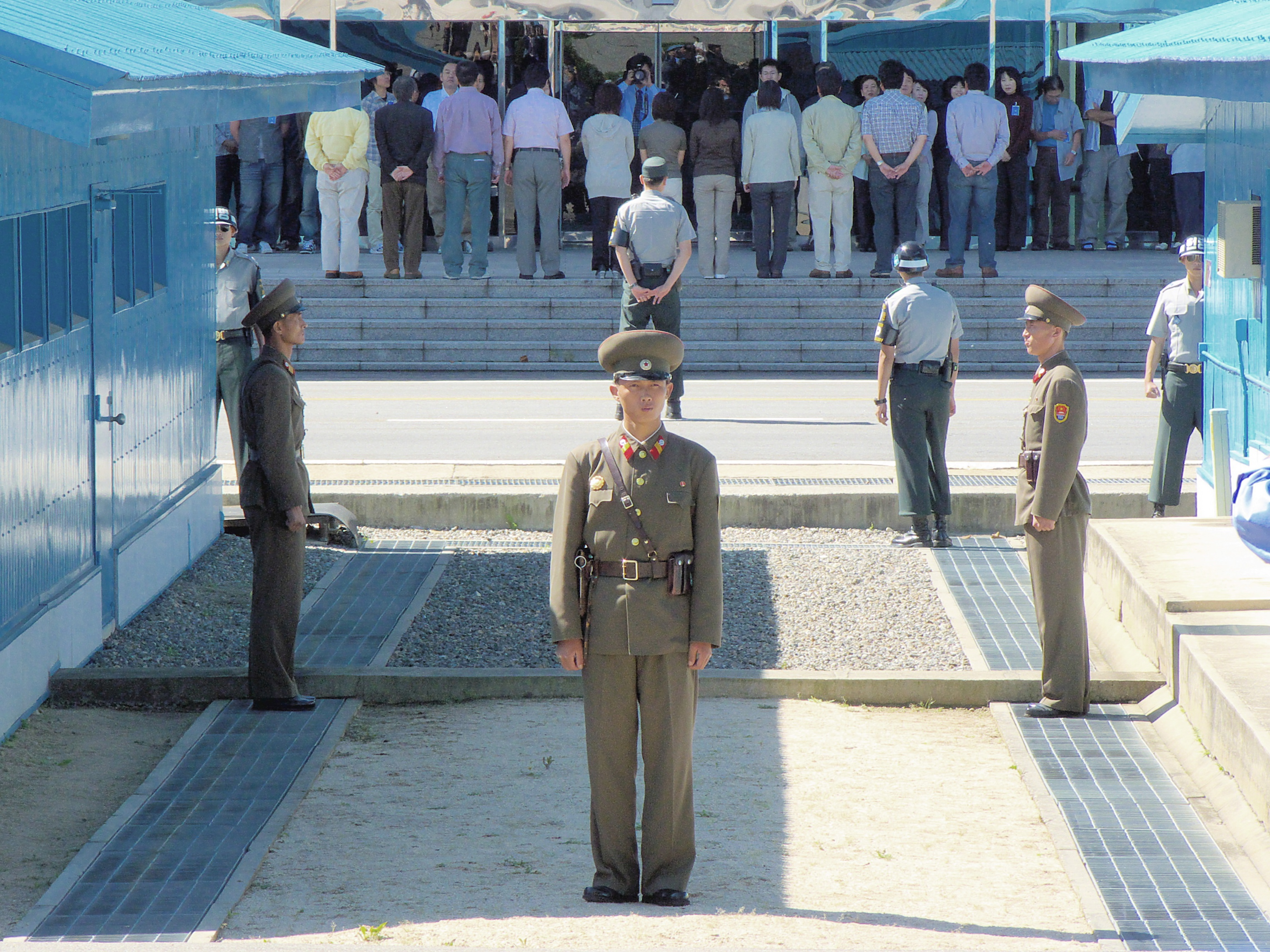 The Demilitarized Zone (DMZ), the 4km wide buffer zone separating North and South Korea is rather ironically, anything but demilitarized. Both countries are still technically at war, the ceasefire and armistice that ended the fighting were never followed with a formal peace treaty. The Joint-Security Area is a row of blue and white huts straddling the Military Demarcation Line dividing the peninsula where armistice talks continue to this day.